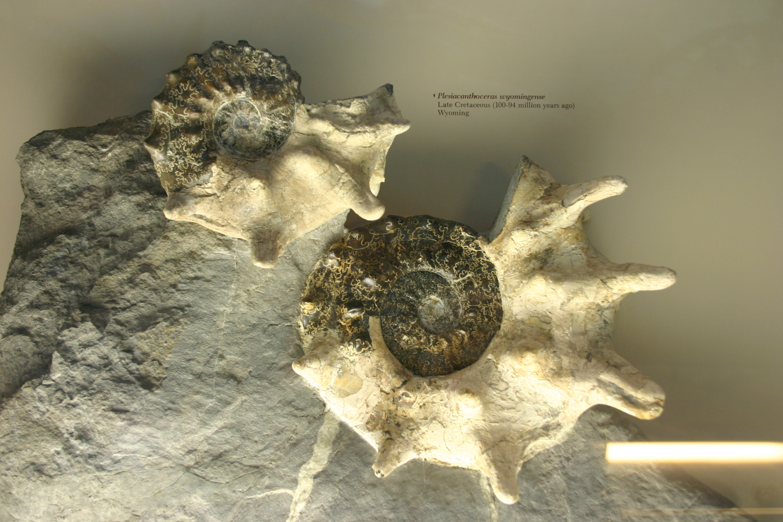 Plesiacanthoceras wyomingense exhibited in Smithsonian National Museum of Natural History: Hall of Fossils